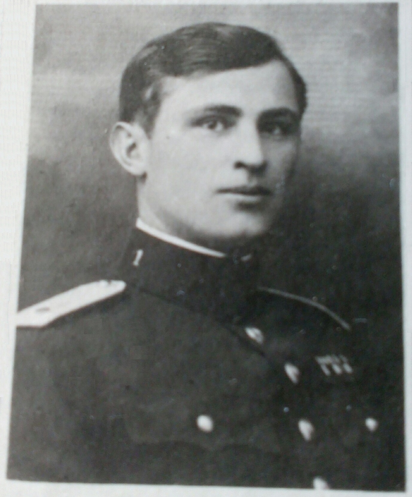 Josef Mašín (* 1896 – † 1942) was an officer in the First Republic Czechoslovak Army and he was also a leading member of the anti-Nazi Protectorate resistance organization "Three Kings". Tableau is dated in the year 1928. Josef Mašín is there in the rank of Staff Captain. Atelier: J. Marek - B. Vedral, Dejvice, Prague.